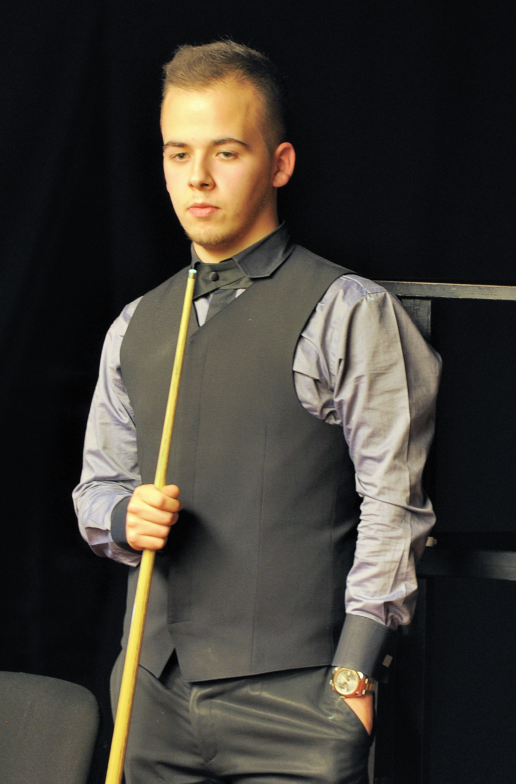 Picture taken in Berlin during the Snooker German Masters in 2014. Luca Brecel.